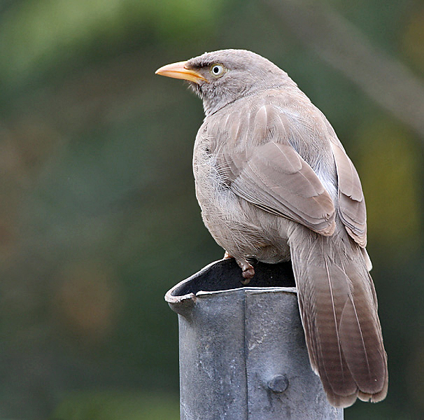 Jungle Babbler Turdoides striatus at Roorkee in Haridwar District of Uttarakhand, India.